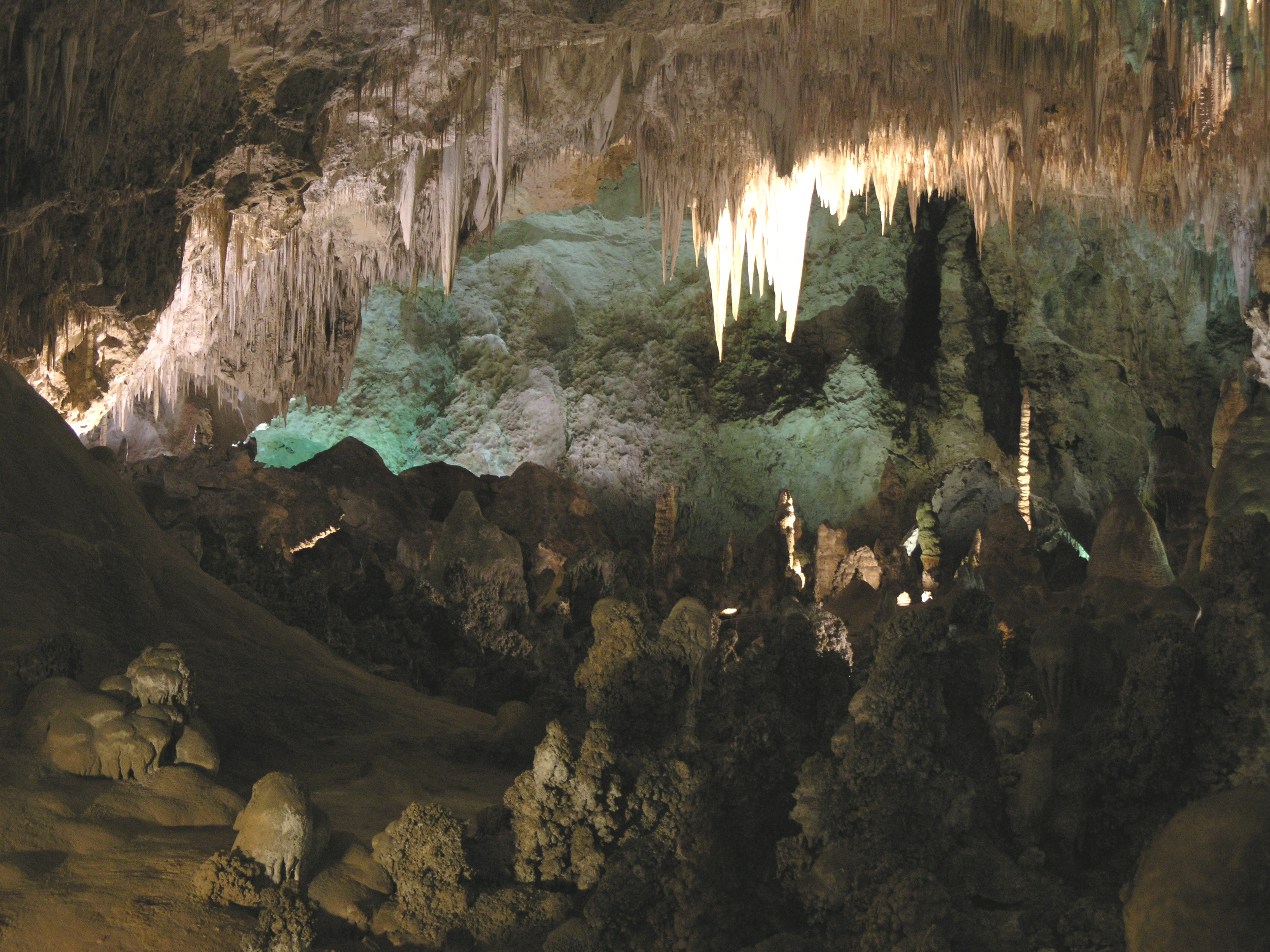 Carlsbad Caverns National Park